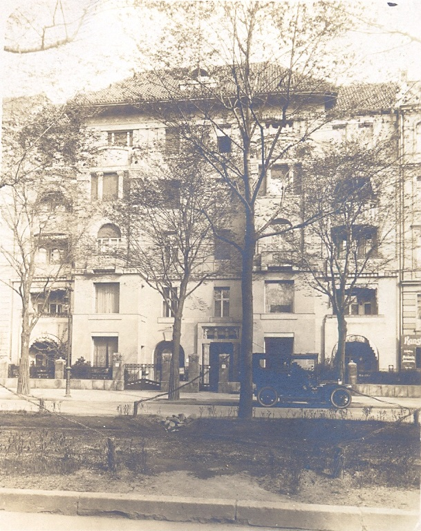 Bulgarian diplomatic mission house in Berlin.